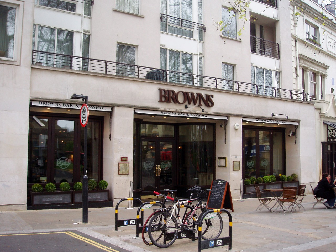 Again, more of a restaurant than a bar, as far as I can tell. This one's in Islington. Address: 7-9 Islington Green. Owner: Mitchells and Butlers [Browns Restaurants] (website). Links: London Pubology